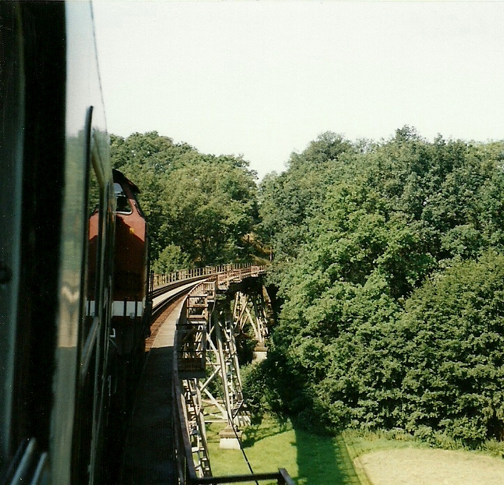 The railway viaduct at Königsbrück in 1997, view from a train coming from Strassgräbchen-Bernsdorf. This line has been closed in 1998.